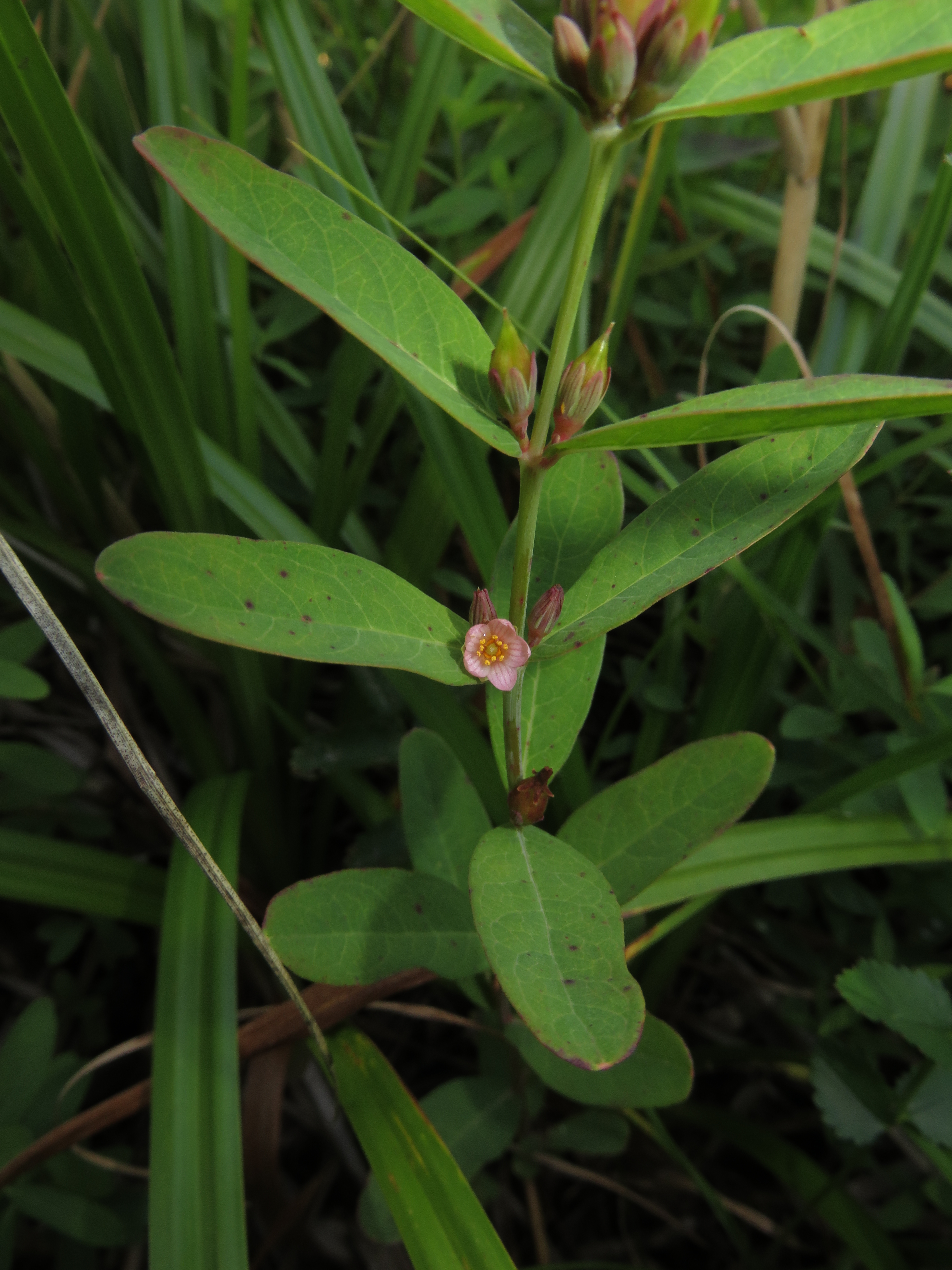 Triadenum japonicum, Aizu area, Fukushima pref., Japan